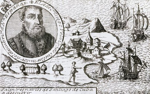 VELAZQUEZ, Diego (Cúellar, 1465-Santiago de Cuba, 1524). Conquistador español. Se trasladó a América en el segundo viaje de Colón (1493). Diego Colón le encomendó la conquista de Cuba. En 1515 instala en Santiago de Cuba la capital de la isla conquistada. En 1517 organizó la expedición al Yucatán. Grabado de 1726.